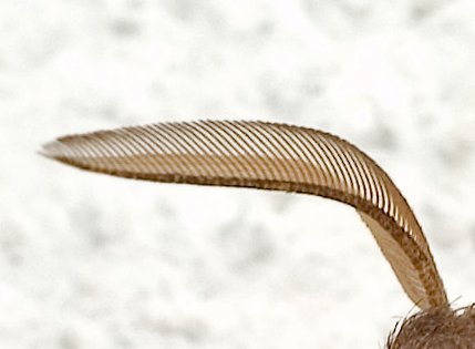 Antennae morphology: pectinate (Lepidoptera: Lasiocampidae)